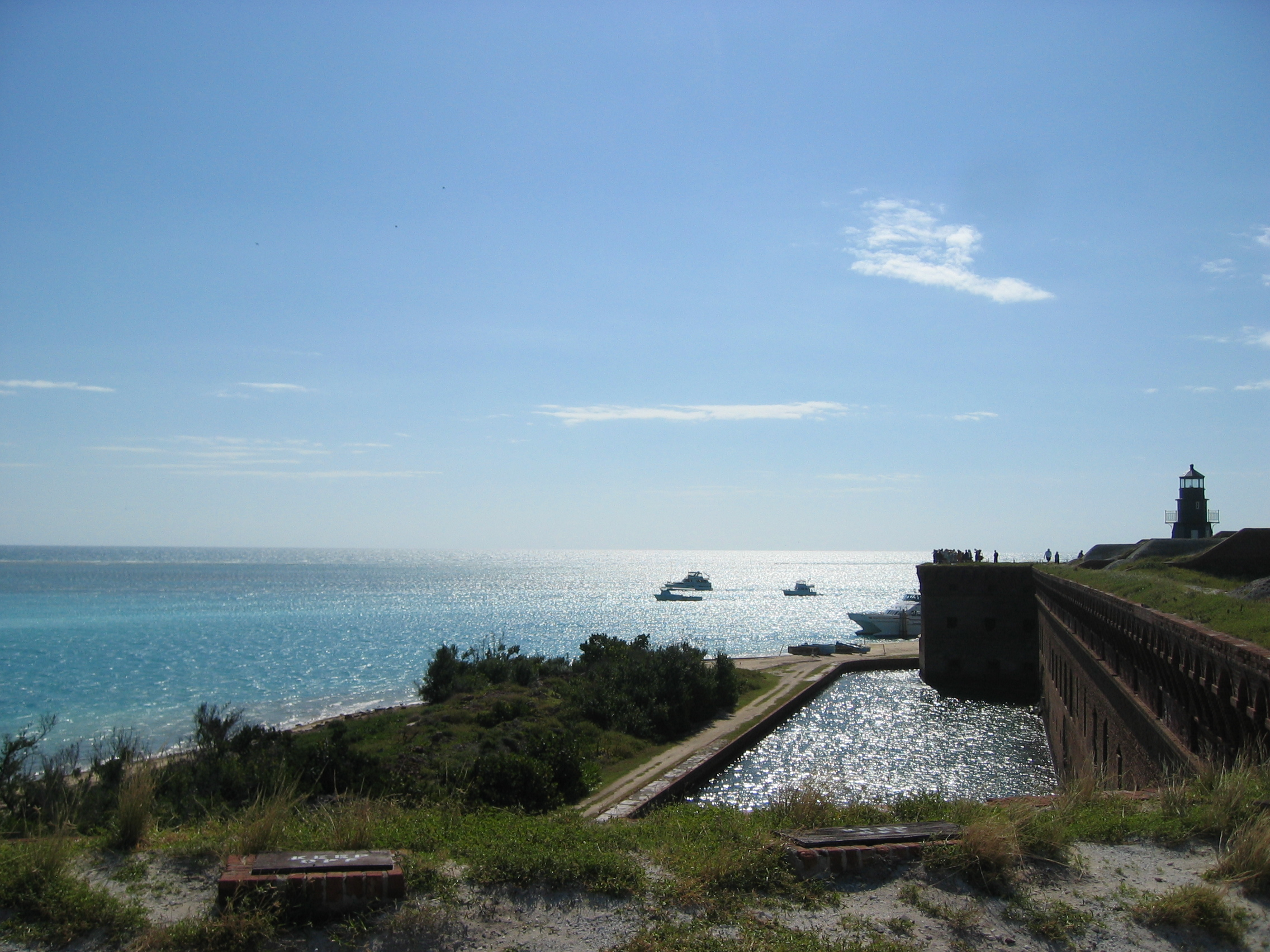 Dry Tortugas National Park